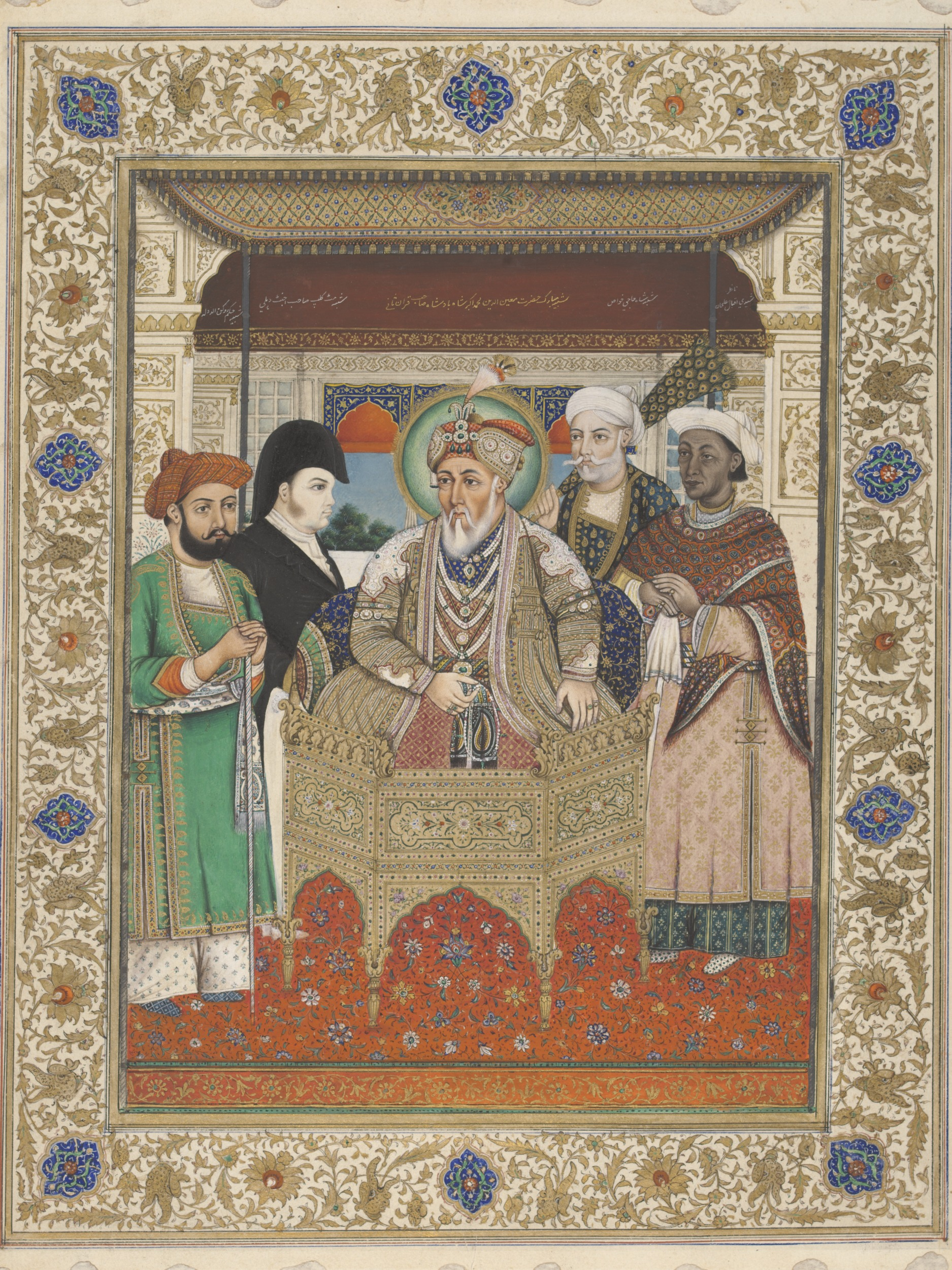 This Company painting is a portrait of Akbar II (1759-1837), who became the penultimate Mughal emperor in 1806. He is seated in state on a gold throne, and on the left of the picture can be seen Hakim Rukhn ad-Daula and Sir Charles Theophilus (later Lord) Metcalfe (1785-1846), Resident and Agent 1811-1819 and 1825-1826. On the right of the picture stand Shah Hajji Khwas and Sidi Iqbal 'Alijan Nazir. Akbar II was succeeded by the last Emperor, Bahadur Shah II. 'Company paintings' were produced by Indian artists for Europeans living and working in the Indian subcontinent, especially British employees of the East India Company. They represent a fusion of traditional Indian artistic styles with conventions and technical features borrowed from western art. Some Company paintings were specially commissioned, while others were virtually mass-produced and could be purchased in bazaars. Physical description The Mughal emperor Akbar II is portrayed seated on a throne on a patterned carpet. Four other dignitaries are shown, two on either side. Place of Origin Delhi, India (made) Date ca. 1825 (painted) Artist/maker Unknown (production) Materials and Techniques Opaque watercolour on paper Dimensions Height: 35.5 cm, Width: 27.5 cm Descriptive line Painting; gouache, Portrait of Akbar II with Sir Charles Theophilus Metcalf and court dignitaries, Delhi, ca. 1825 Bibliographic References (Citation, Note/Abstract, NAL no) Archer, Mildred. Company Paintings Indian Paintings of the British period Victoria and Albert Museum Indian Series London: Victoria and Albert Museum, Maplin Publishing, 1992, 162 p ISBN 0944142303 Materials Paper; Opaque watercolour Techniques Painted Subjects depicted Flowers; Costume; Throne; Carpet; Akbar II; Metcalfe, Sir Charles Theophilus; Hakim Rukhn ud-Daula; Shah Hajji KhwasSidi Iqbal Alijan Nazir Categories Paintings; Company paintings